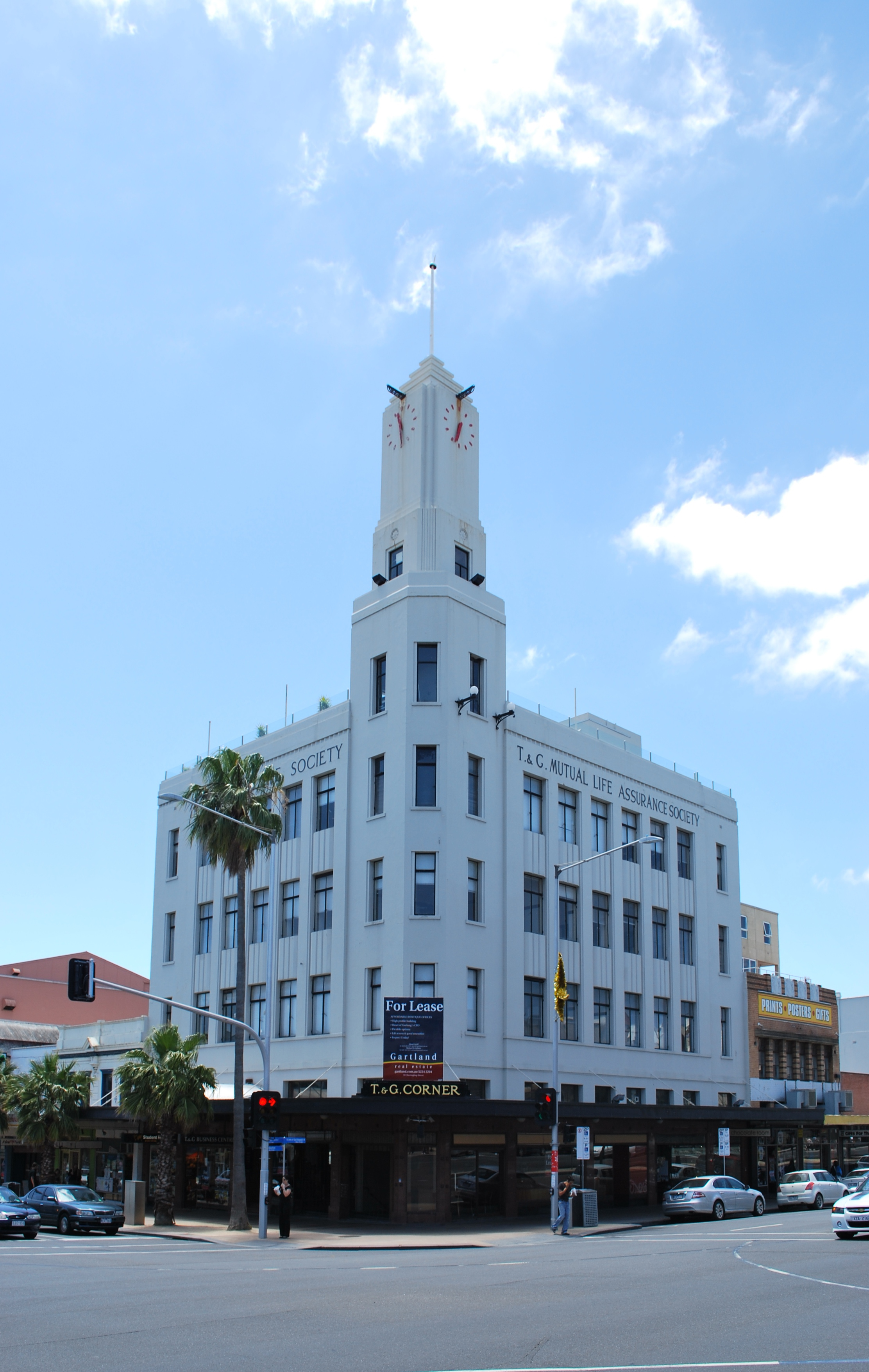 T & G building in Geelong